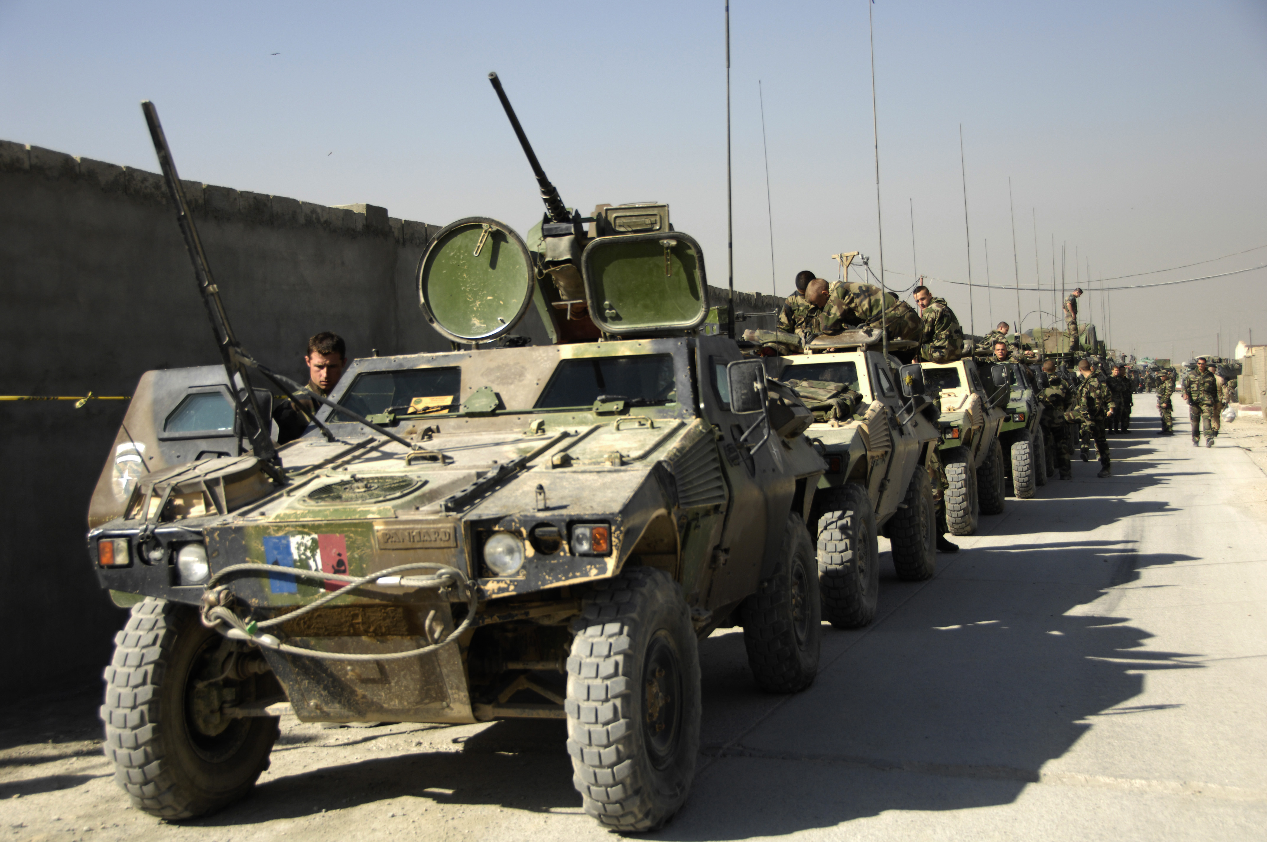 SAROBI, Afghanistan - French army soldiers prepare their vehicles for a convoy prior to departing camp for the International Security Assistance Force (ISAF) mission, Operation Eagle, Oct. 18, 2008. The operation was conducted Oct. 17-18 and included American and French military forces, along with the Afghan National Army (ANA) and Afghan National Police (ANP) troops. The purpose of the operation was to strengthen the ANA's and ANP's influence in the area and to help foster their war fighting capabilities independently against insurgents. (ISAF photo by MC1 Michael E. Wagoner)(released)